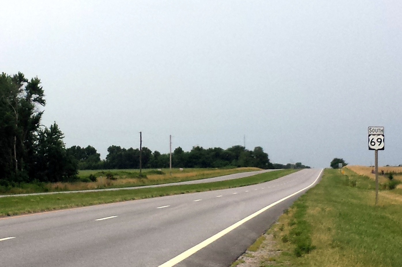 US 69 southbound south of Franklin, KS